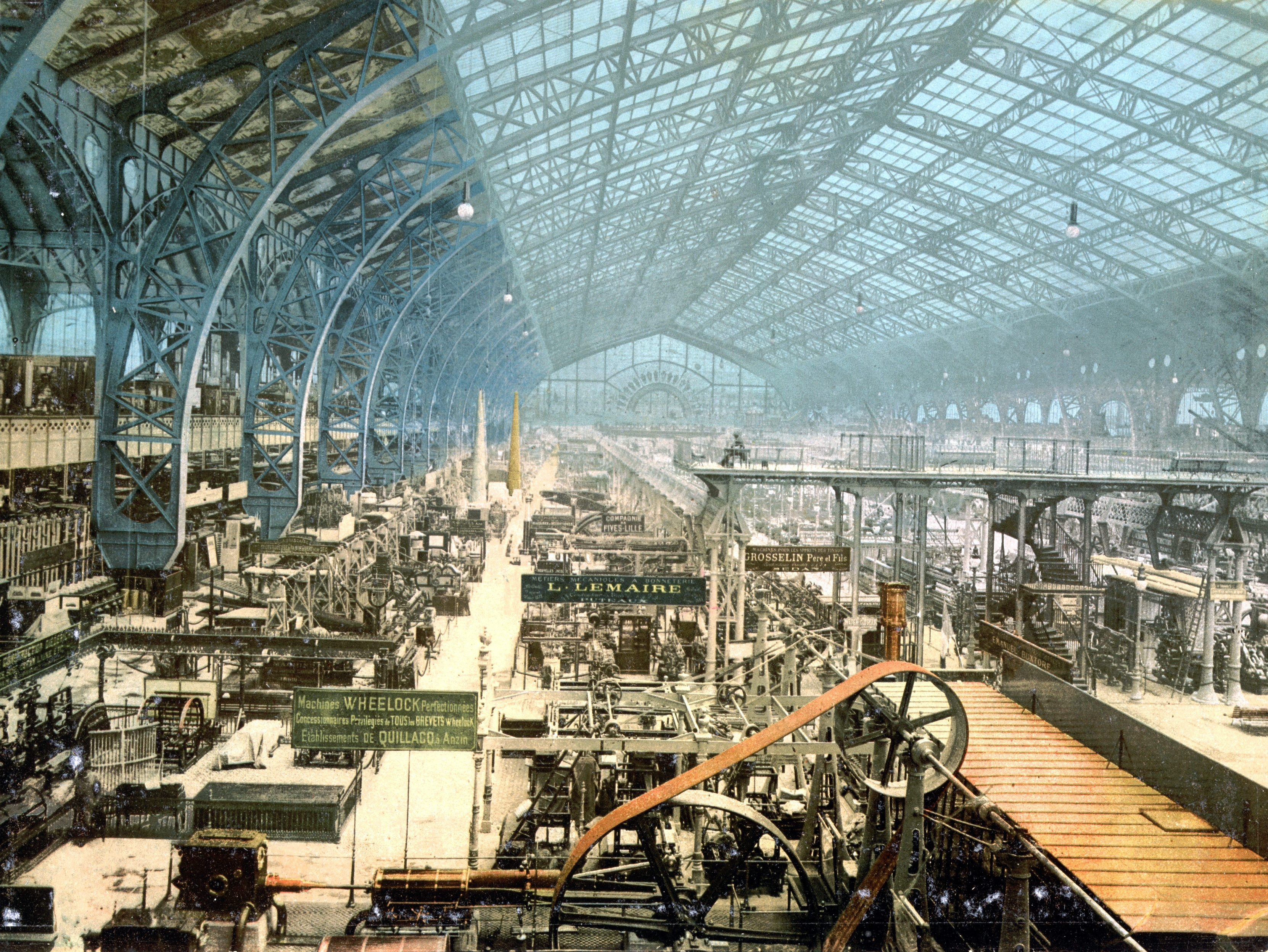 Interior view of the Gallery of Machines, Exposition universelle internationale de 1889, Paris, France